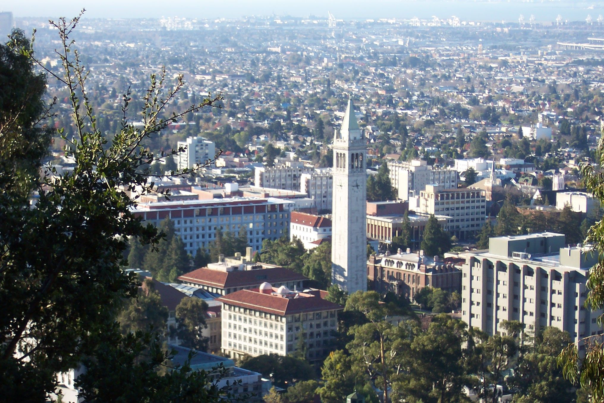 Overview of the University of California, Berkeley campus from the Berkeley Lab, from up the hills and south-westward. California, USA.